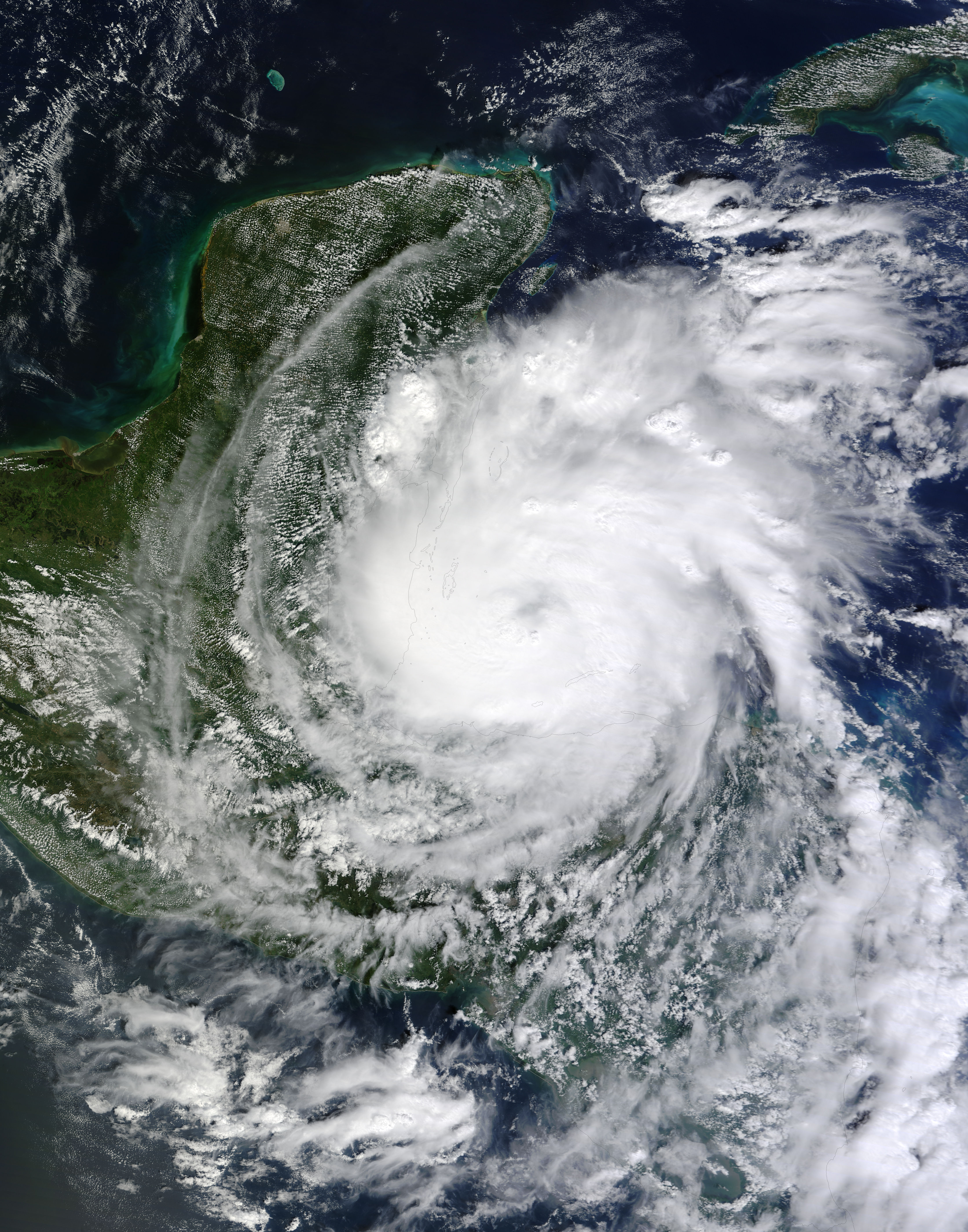 Hurricane Richard.